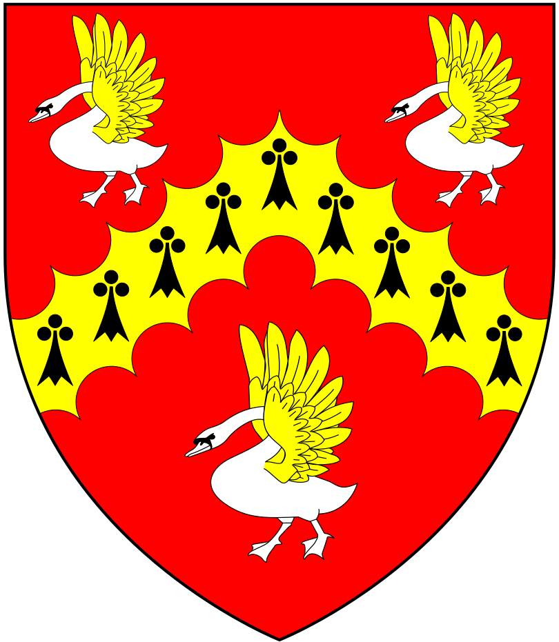 Arms of Rees of Wick in Glamorgan, Wales: Gules, a chevron engrailed erminois between three swans argent wings elevated or(Burke's Genealogical and Heraldic History of the Landed Gentry, 15th Edition, ed. Pirie-Gordon, H., London, 1937, pp.1610-1611, pedigree of "Rees-Mogg of Cholwell", p.1611)